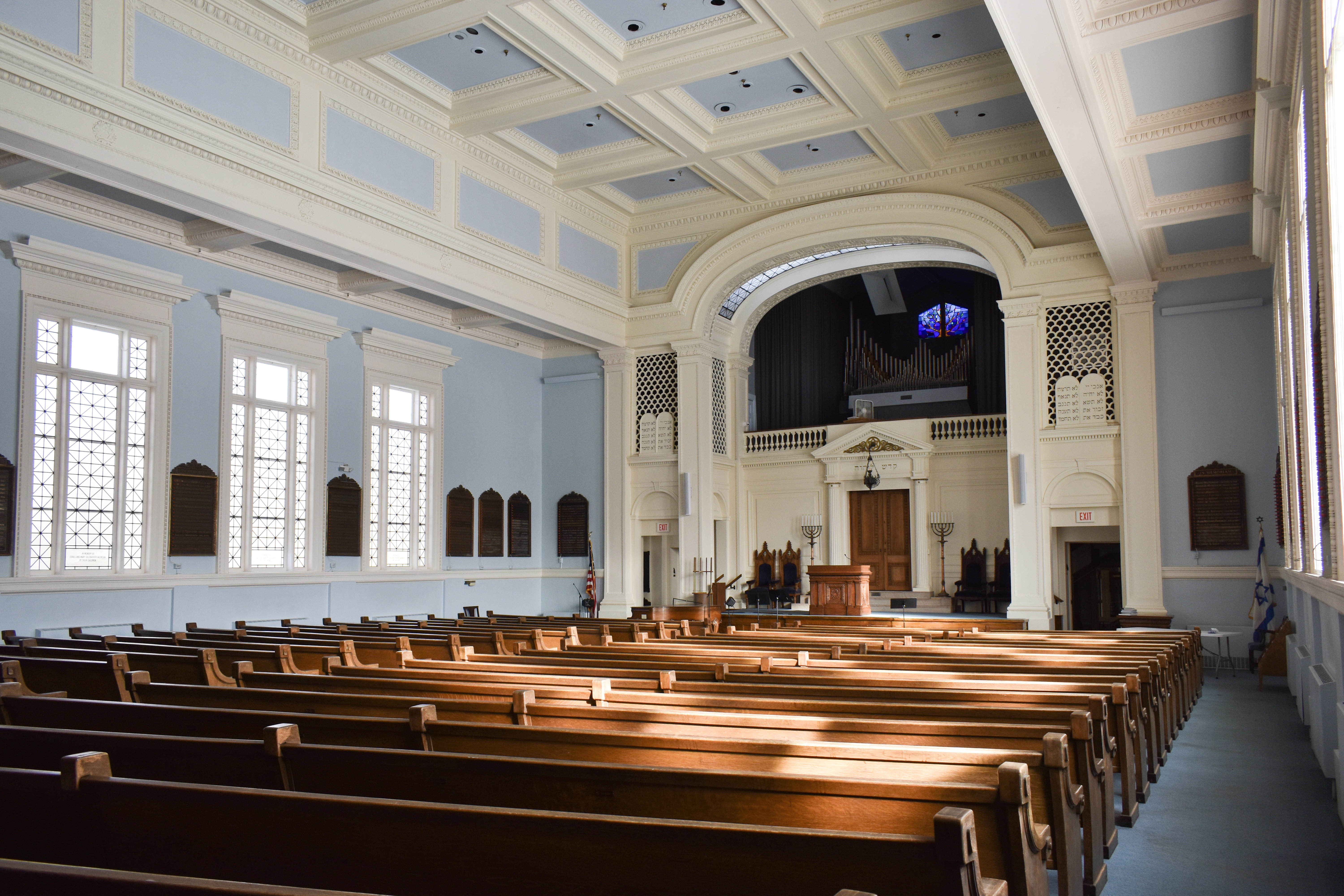 Interior photographs of the historic Temple Society of Concord in Syracuse, New York, USA